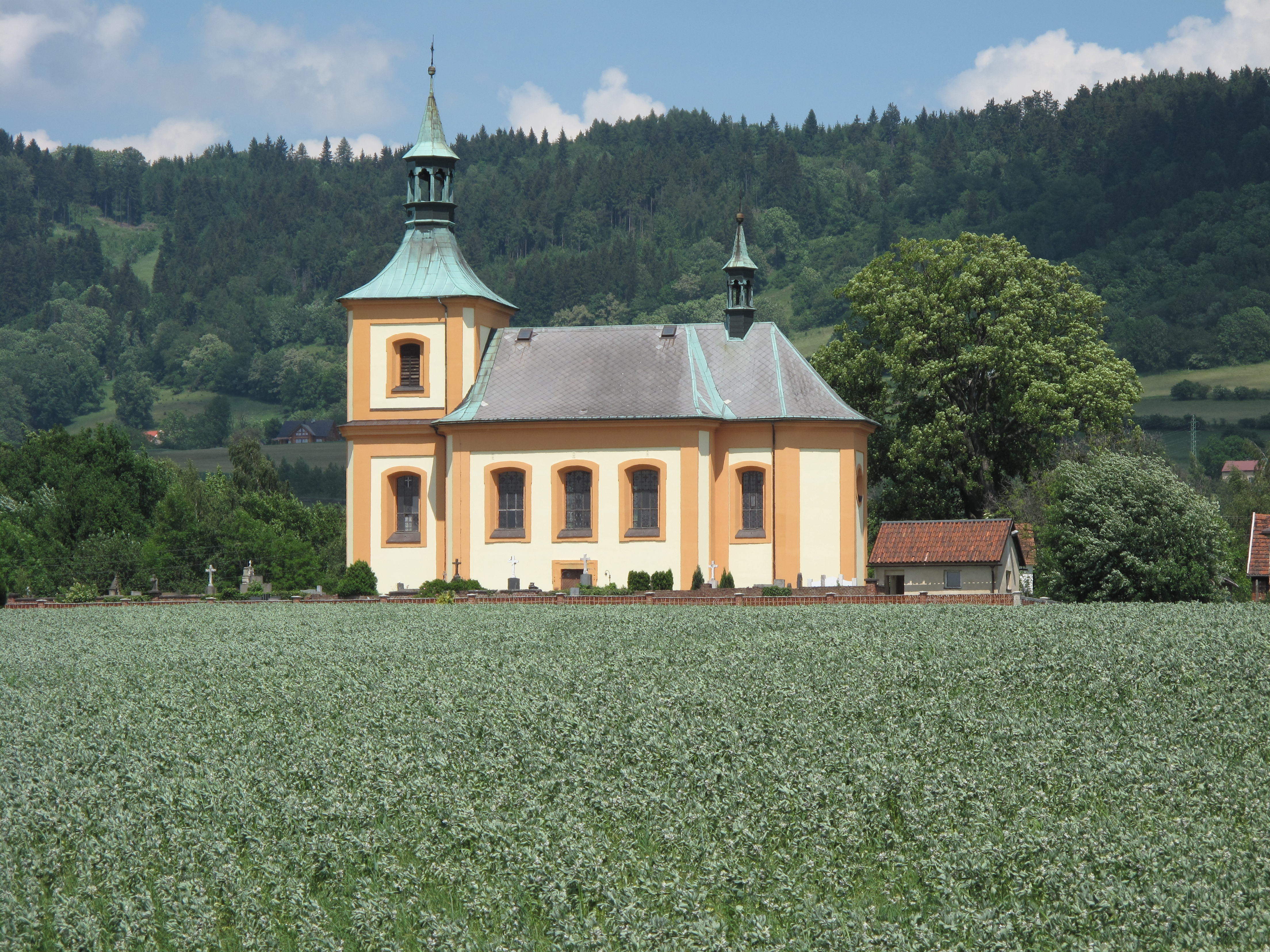 Church of Saint Lawrence of Rome in Tatobity village, Semily District, Czech Republic.